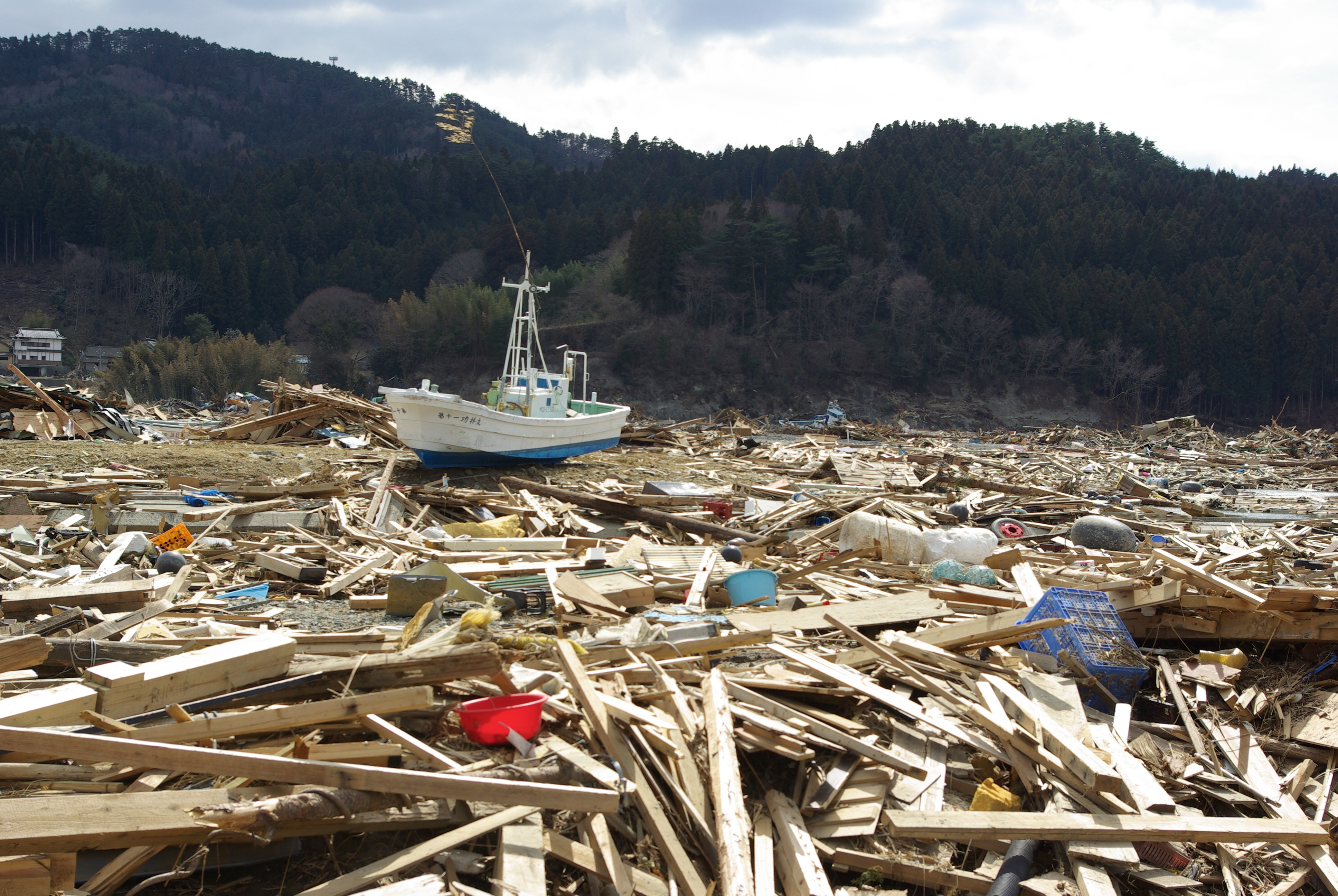 A boat washed ashore in Rikuzentakata, Iwate, Japan.